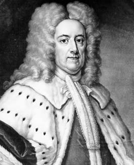 Portrait of James Stanley, 10th Earl of Derby (1664-1736)